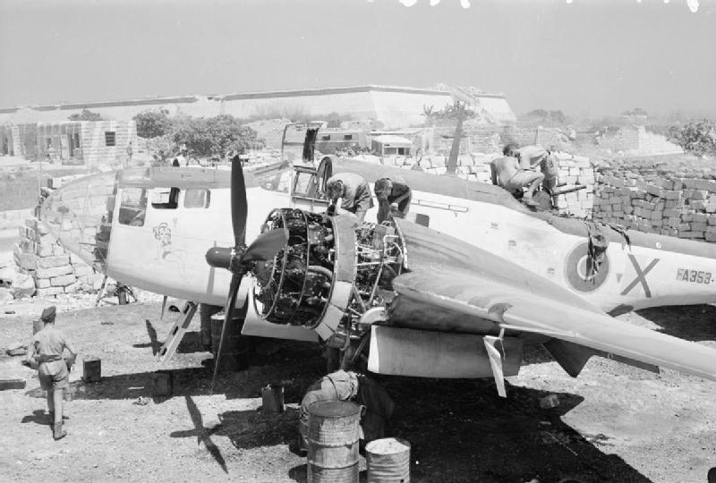 Royal Air Force Operations in Malta, Gibraltar and the Mediterranean, 1939-1945. Ground crews servicing, or stripping, a Martin Baltimore Mark IIIA, FA353 'X', of No. 69 Squadron RAF in a revetment built of limestone blocks at Luqa, Malta.